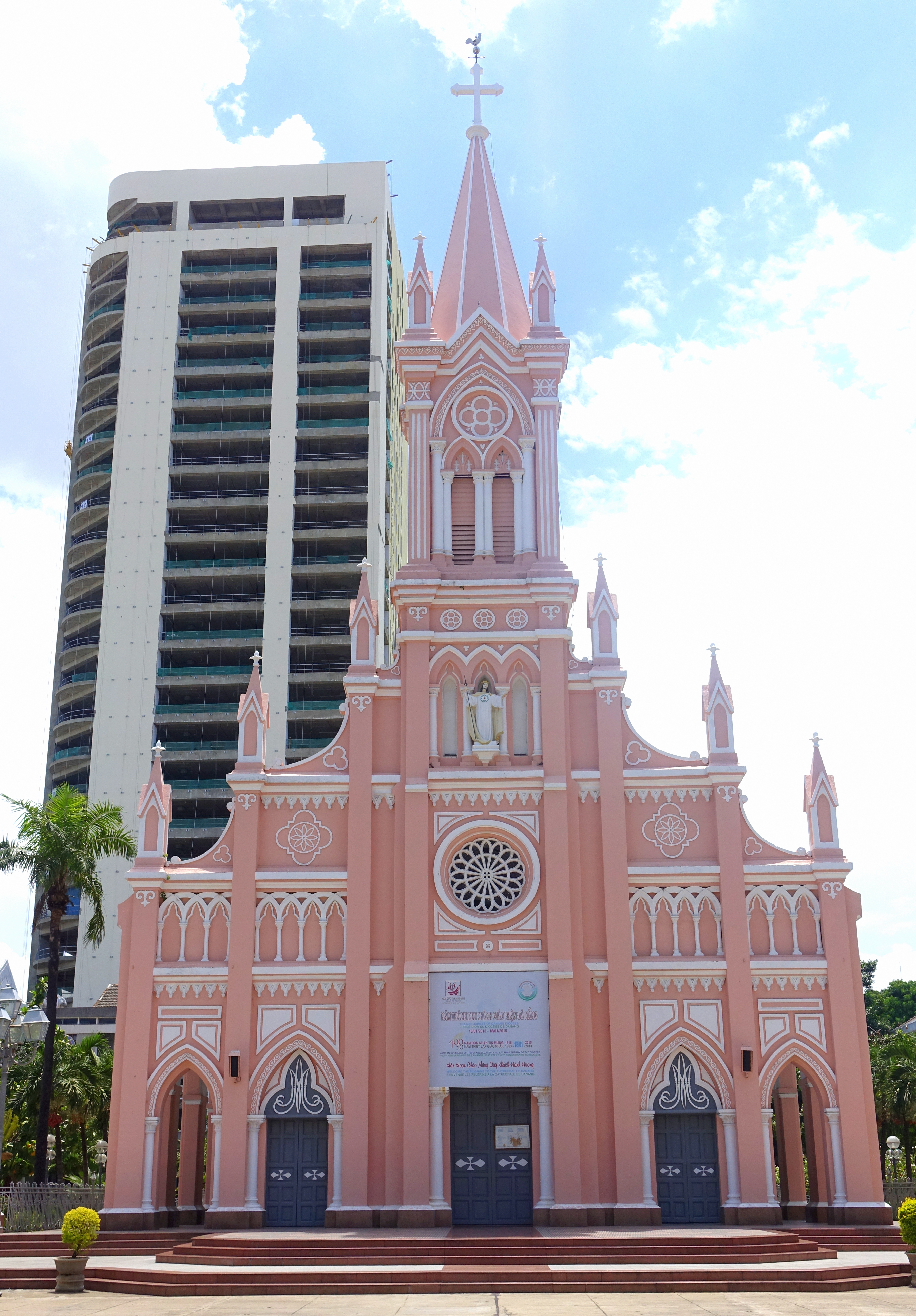 Da Nang Cathedral - Da Nang, Vietnam.